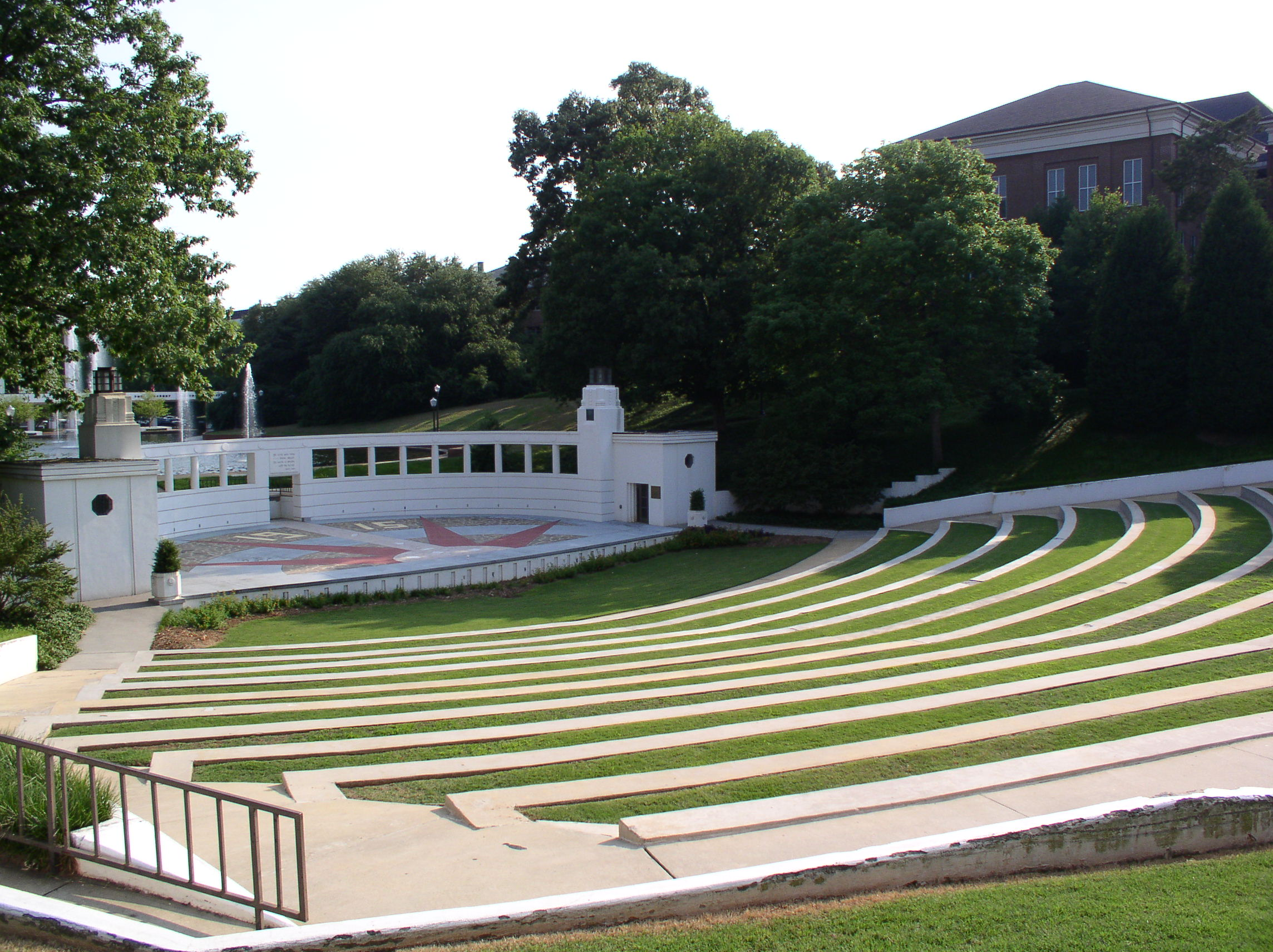 Amphitheatre at Clemson University